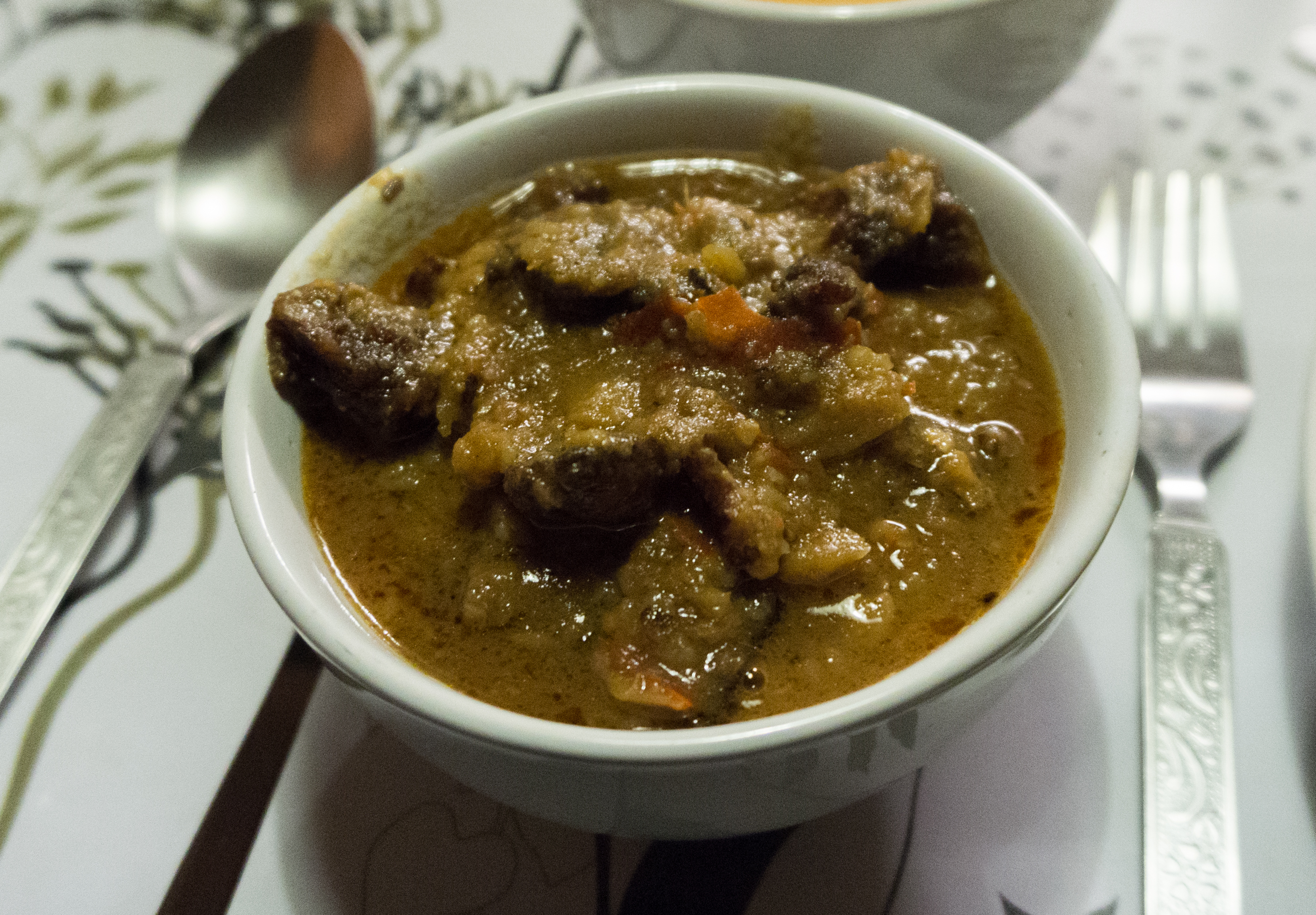 Spicy pork curry made with smoked pork and Axone (Fermented Soyabeans). This dish is from the Indian state of Nagaland. The photo is taken at Revolver Hotel, Darjeeling.